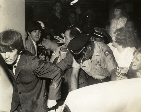 Members of the Beatles leaving hotel press conference